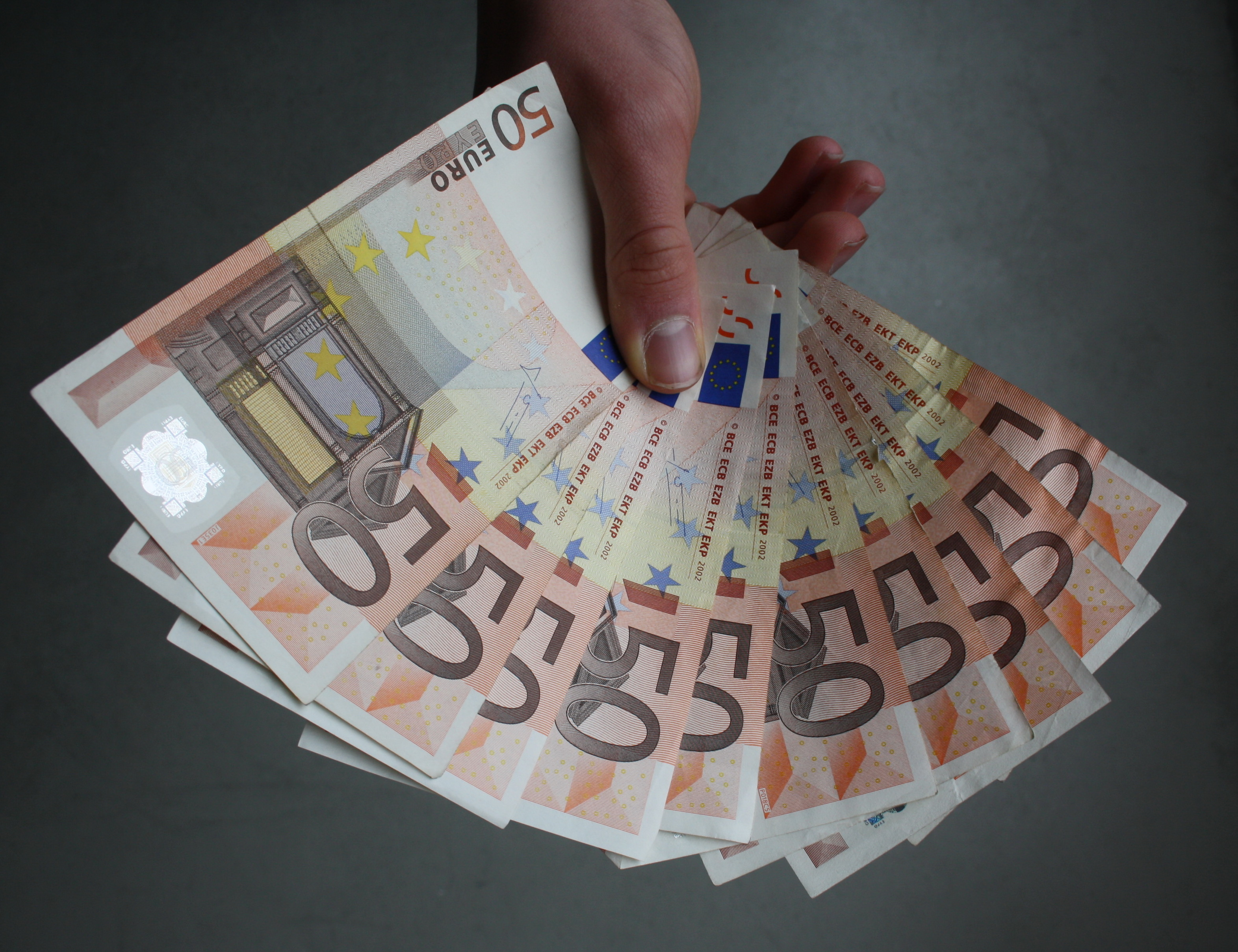 50 euro bank notes in the hand fanned.